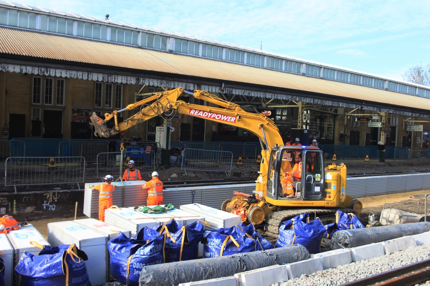 Engineers position a foam-cored platform wall unit for the realigned platform 2 at Bath Spa.